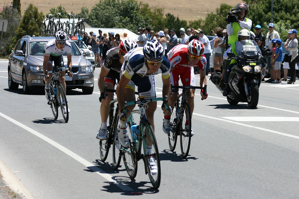 At the 100m mark of the first sprint in Mt Compass during Stage 3 of the 2012 Tour Down Under.